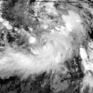 Hurricane Olivia on September 22, 1978